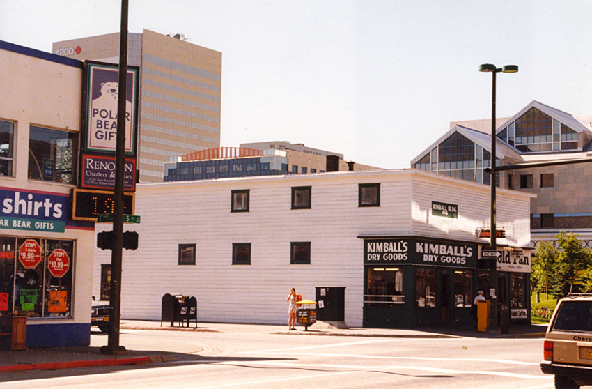 The Kimball Building on Fifth Avenue in downtown Anchorage. It was built in 1915. This photo is geotagged.